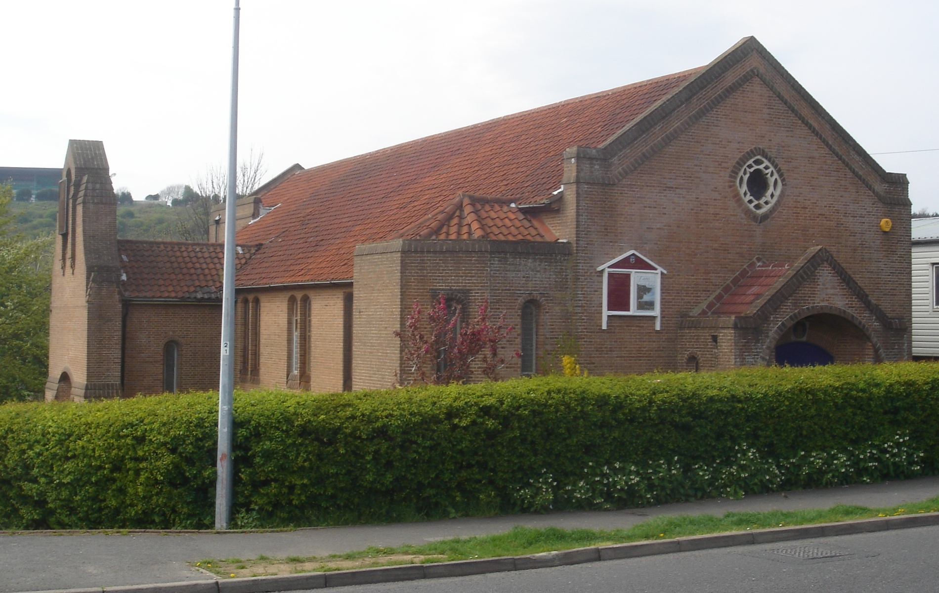 St Cuthman's Church, Whitehawk Way, Whitehawk, City of Brighton and Hove, England. Rebuilt after damage in the Second World War, this Anglican church serves the Whitehawk estate.